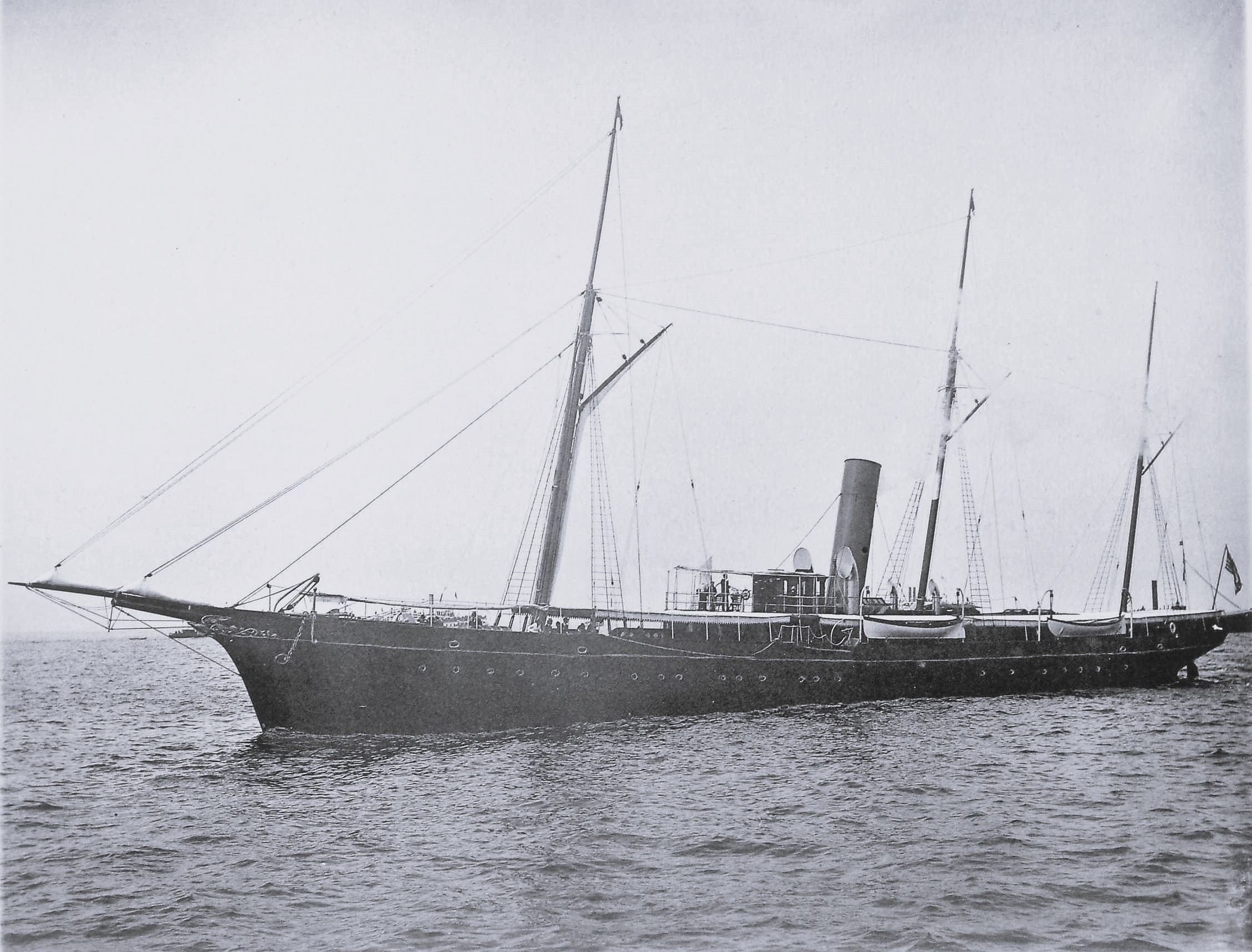 Atalanta (Charles Henry Cramp design, 1883)